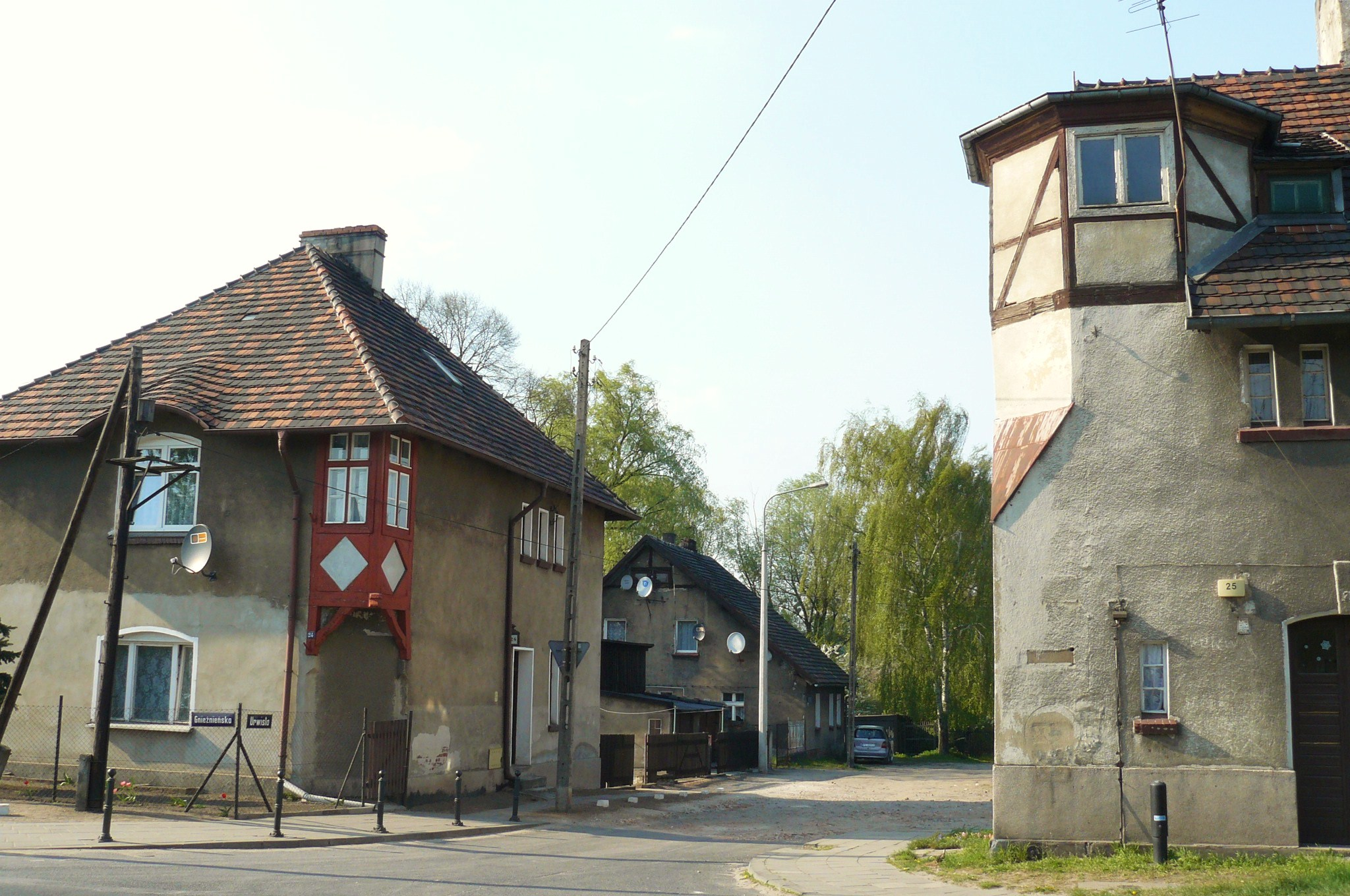 Former Karlsbunne Distr. - Poznan.